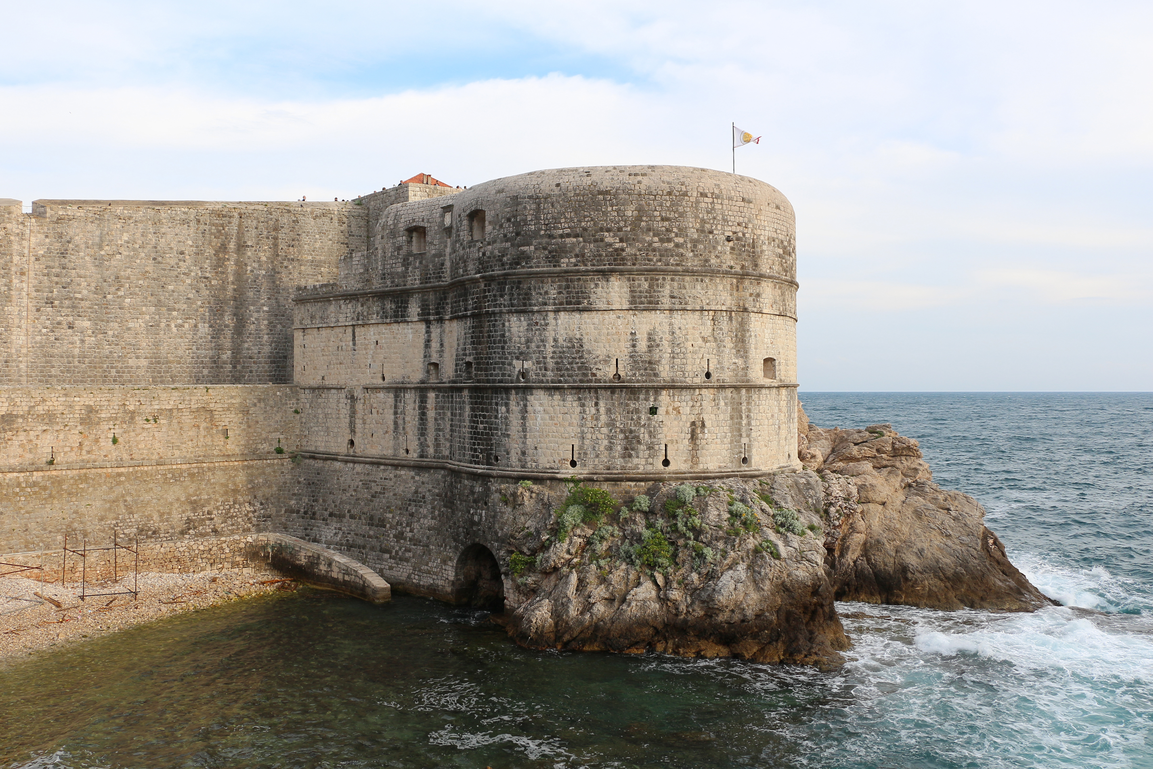 Bokar Fortress, Dubrovnik, Croatia